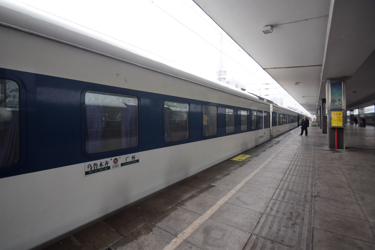 Z137 25T train was stopping at Platform 2 of Yueyang Railway Station.